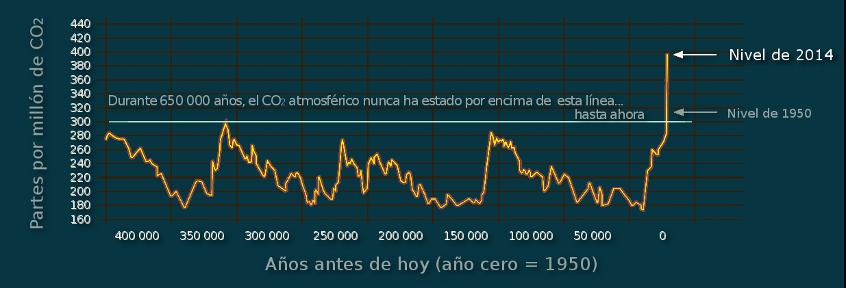 Version in Spanish. This plots atmospheric CO2 concentration synthesizing ice core proxy data 650,000 years in the past capped by modern direct measurements.